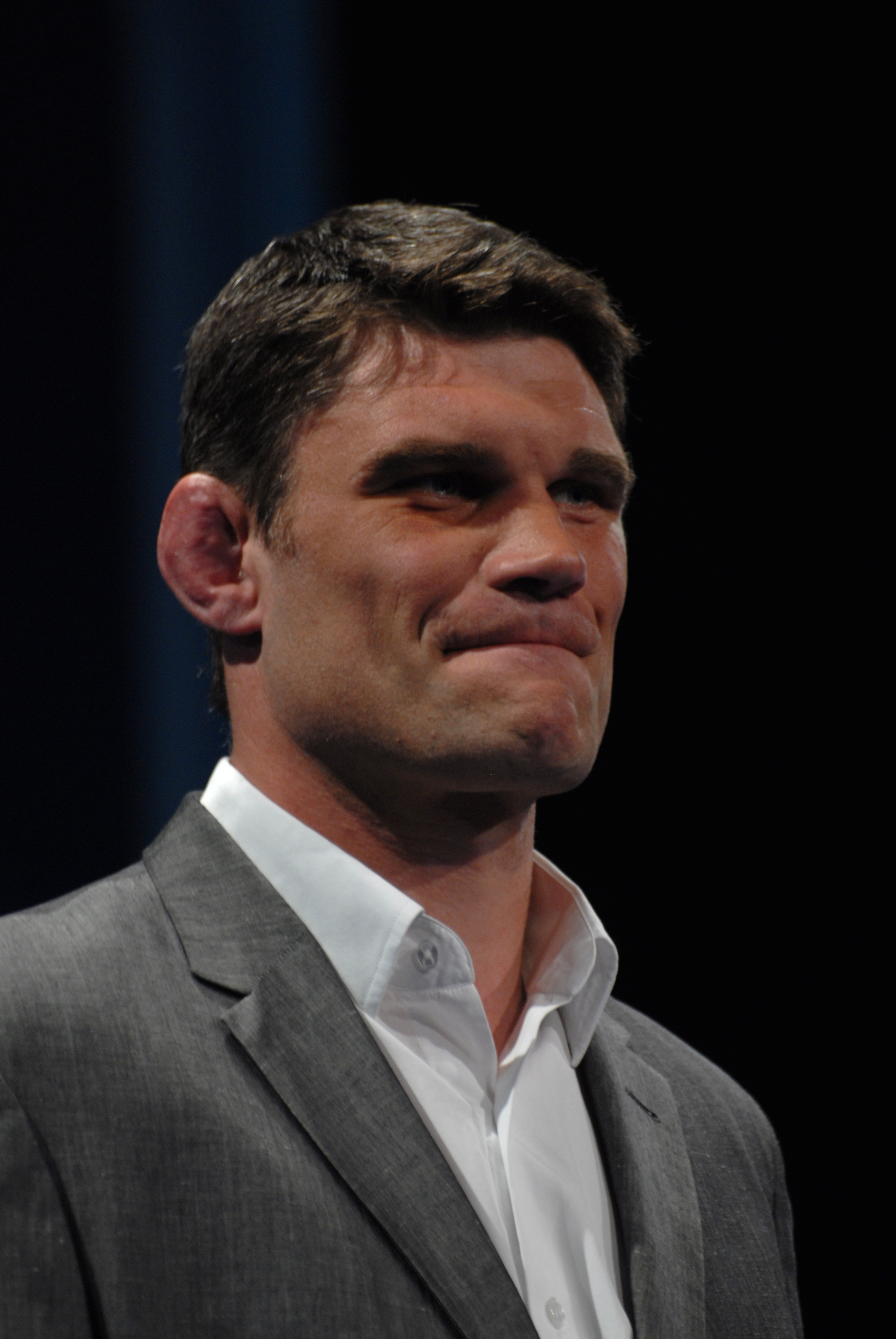 French rugby union player Fabien Pelous supporting Jean-Luc Moudenc's candidacy for the French town elections in Toulouse, 2008.